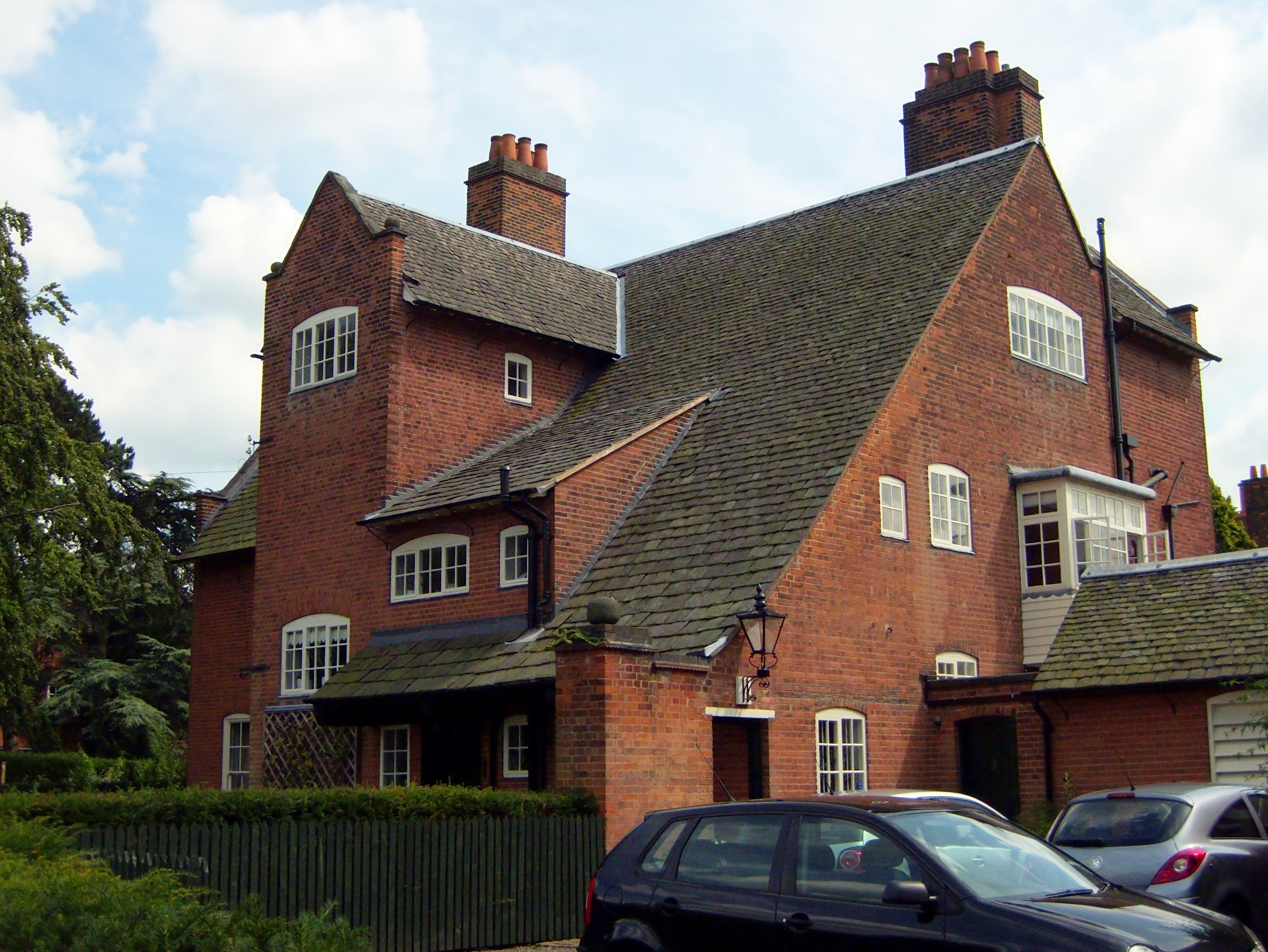 Inglewood House, designed by Ernest Gimson, in Leicester, UK. The photograph was taken while standing on a public pavement